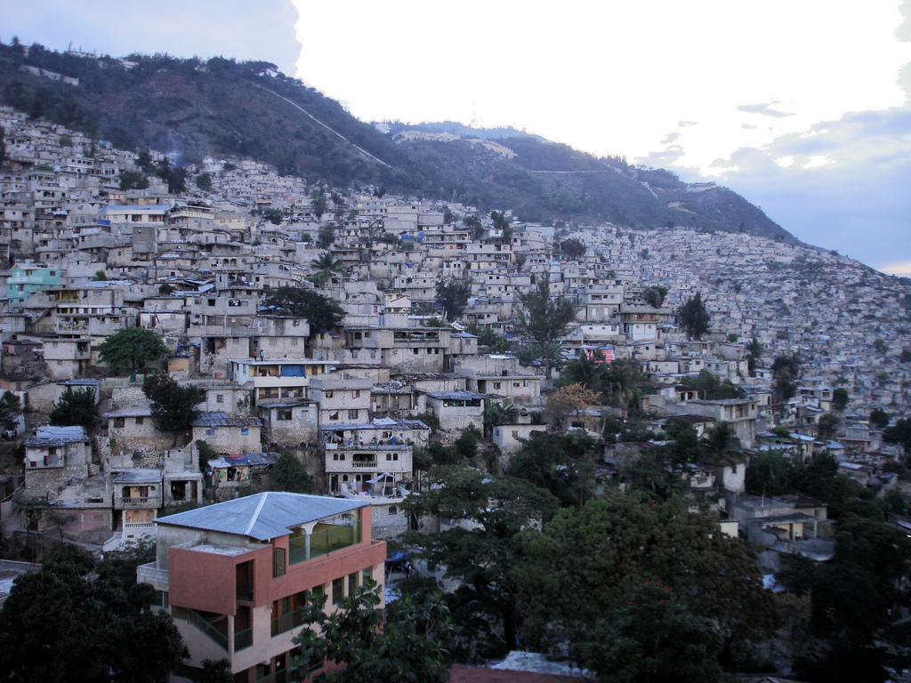 A view from The View bar and restaurant